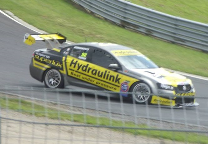 Andre Heimgartner at 2013 Hampton Downs V8ST